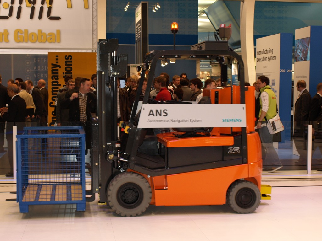 AGV (ANS) on Siemens AG Stand at Hannover Messe 2008